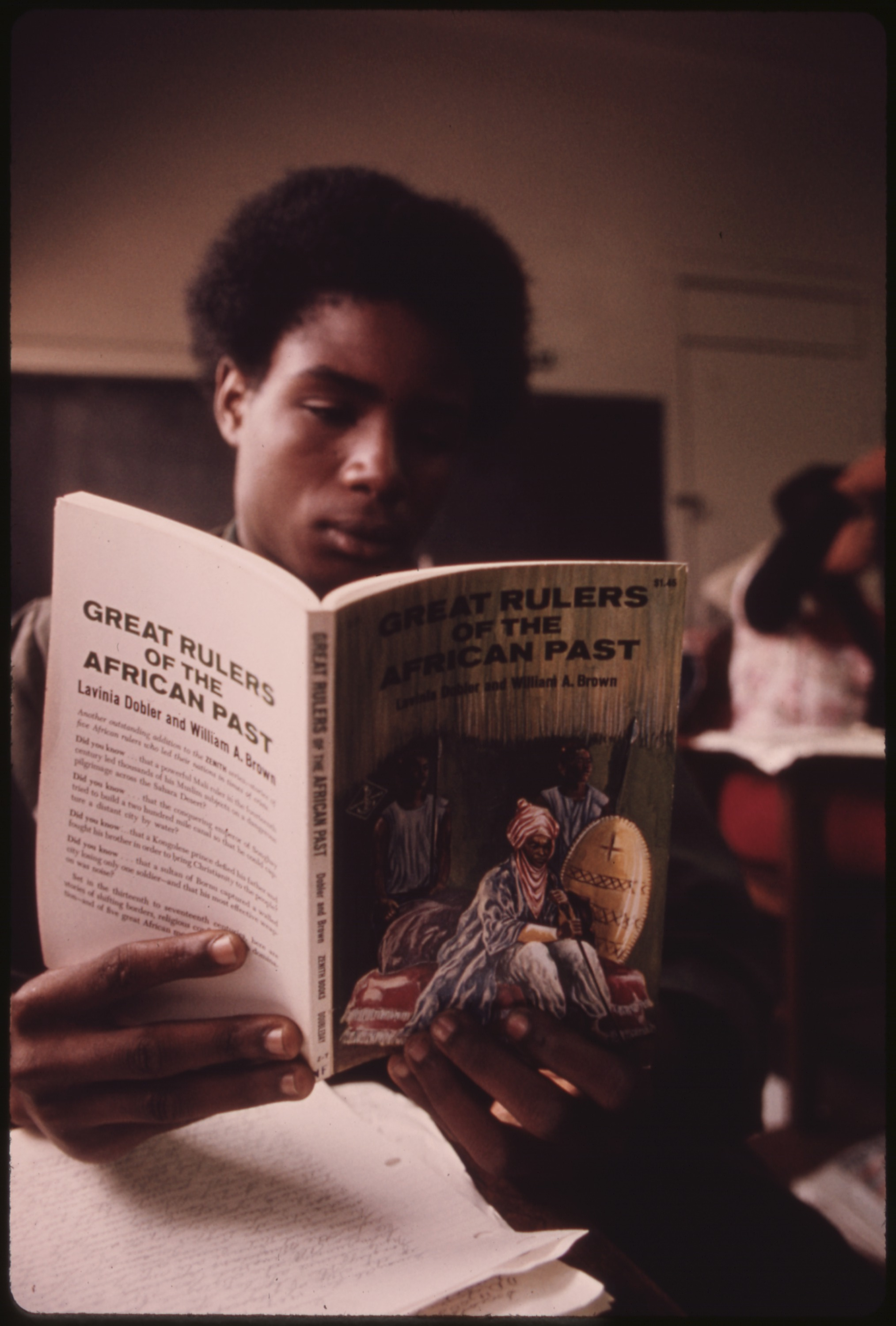 General notes: In the West Side district of Chicago, Illinois.